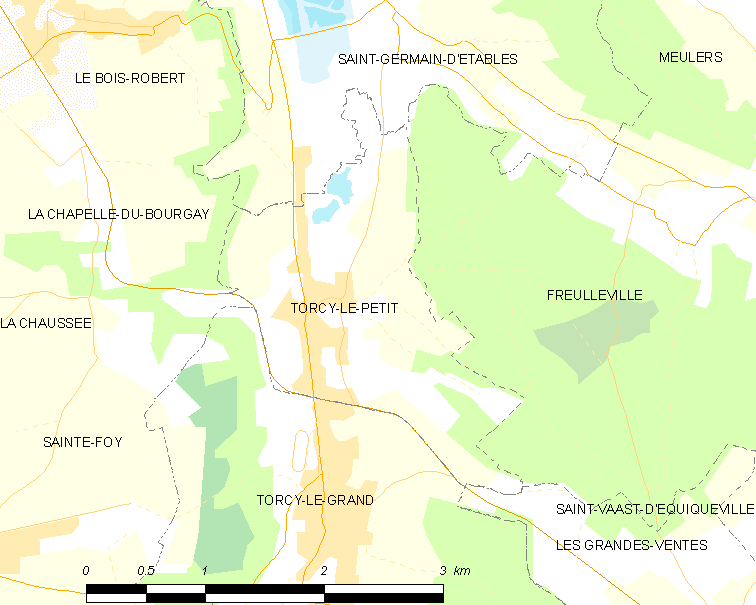 Map of French municipality Torcy-le-Petit